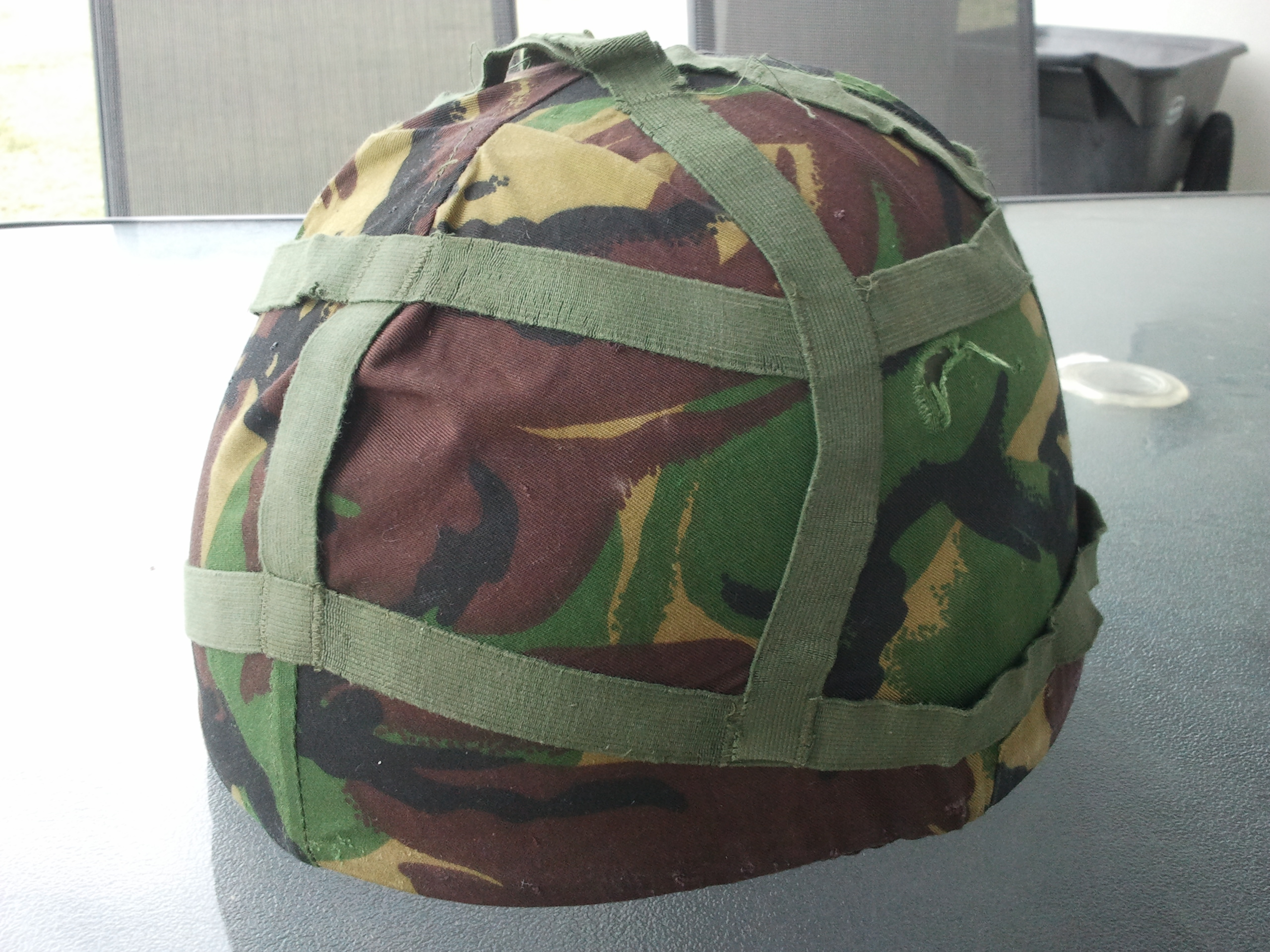 DPM helmet mk 6